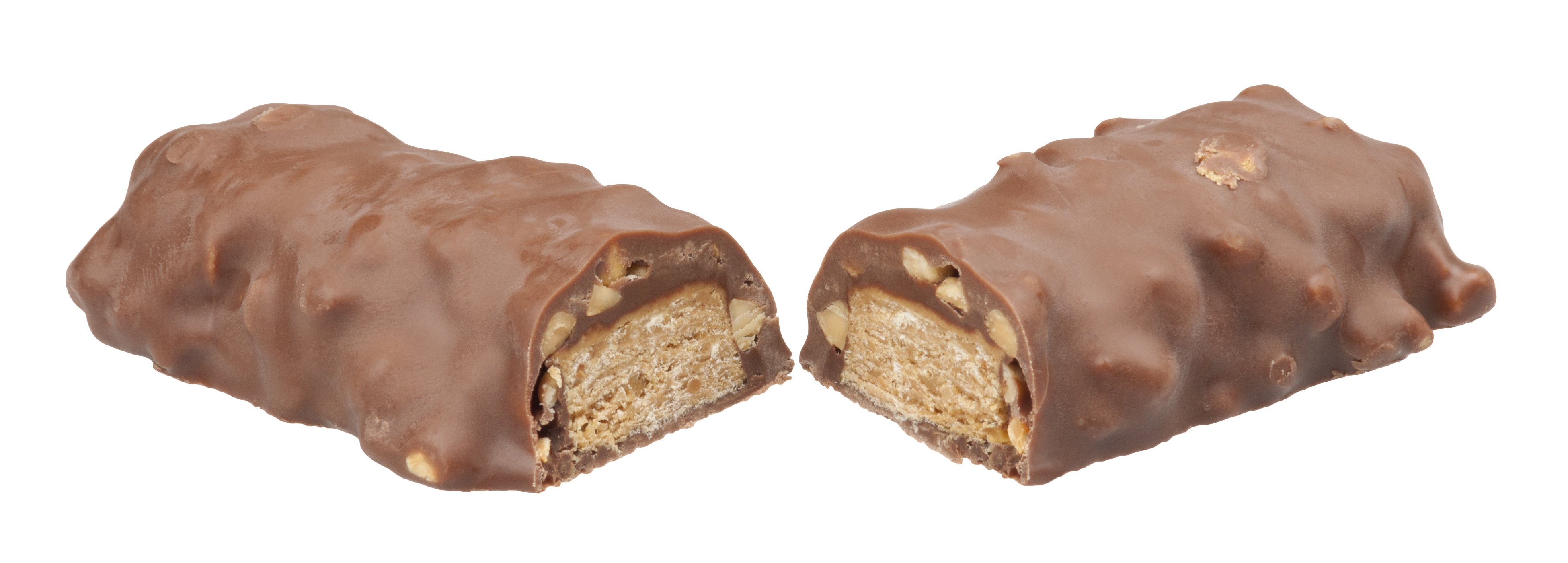 A Reese's Crispy Crunchy candy bar shown split in half.